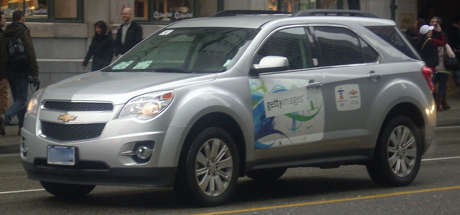 2010 Chevrolet Equinox photographed in Vancouver, British Coumbia, Canada at the 2010 Winter Olympics.